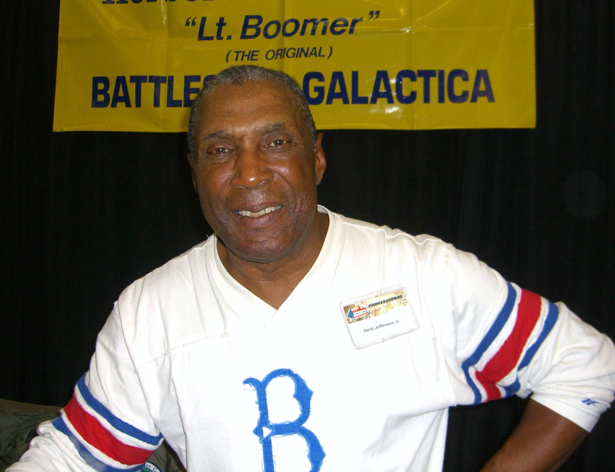 Actor Herbert Jefferson, Jr. at the Big Apple Convention in Manhattan. Photographed by Luigi Novi. This photo may only be used if the photographer is properly credited. (See Licensing information below.)